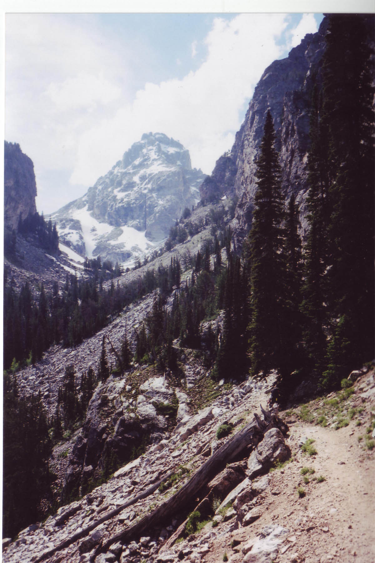 View of Middle Teton at the entrance of Garnet Canyon in Grand Teton National Park.